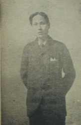 Seo Kwang-beom, Politicians of Joseon Dynasty, Korea